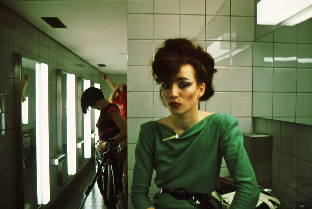 Beate Bartel, bass, from Mania D during the film shooting "Fashion Intellection" Berlin, September 1979